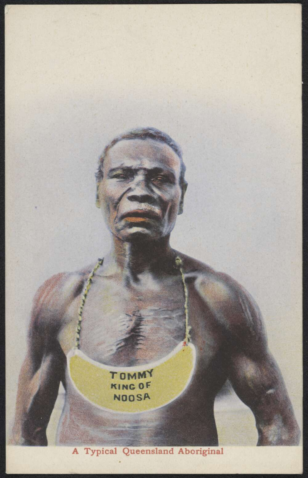 Aboriginal man wearing a breastplate inscribed King Tommy of Noosa.